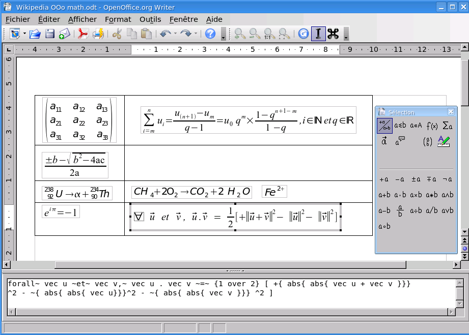 application Open Office Math